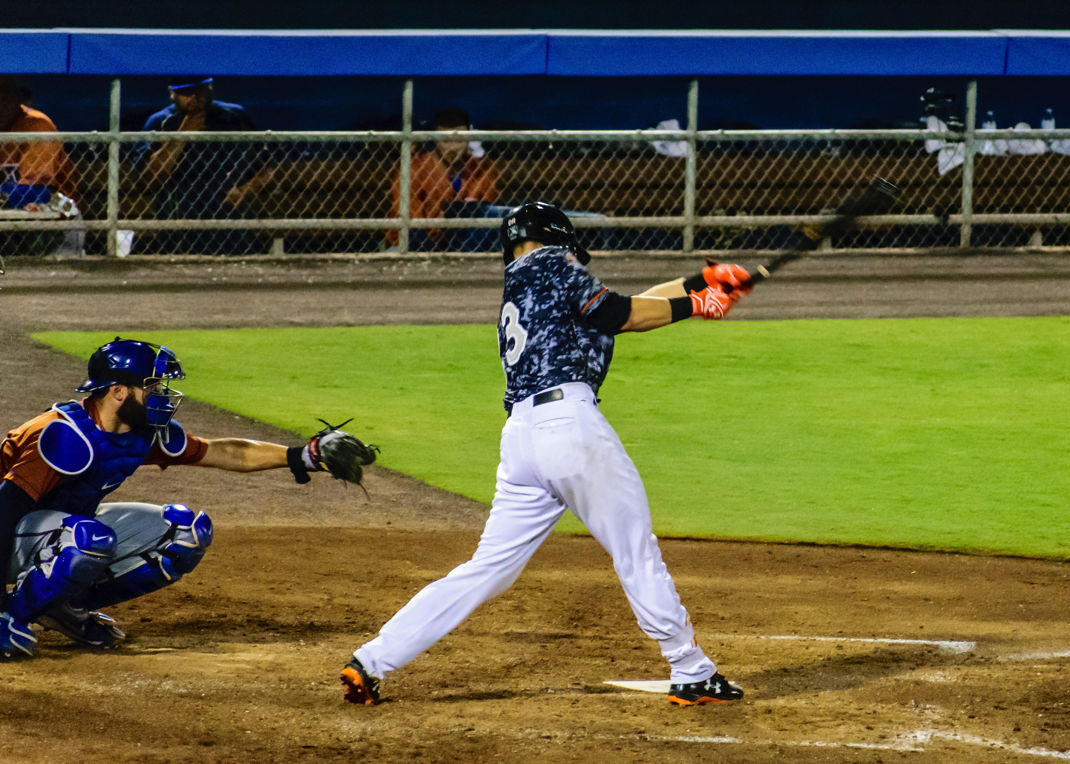 Chance Sisco of the Norfolk Tides hitting a single into center-left, which advanced a runner from first base to second base. Sisco was name Player of the Game because of multiple hits he made in this game. This game was in Harbor Park in Norfolk, Virginia against the Durham Bulls. Tides won 4-2. This game was a salute to the 100th anniversary of Norfolk Naval Station and all who had served there were asked to stand in recognition. There were fireworks after the game.